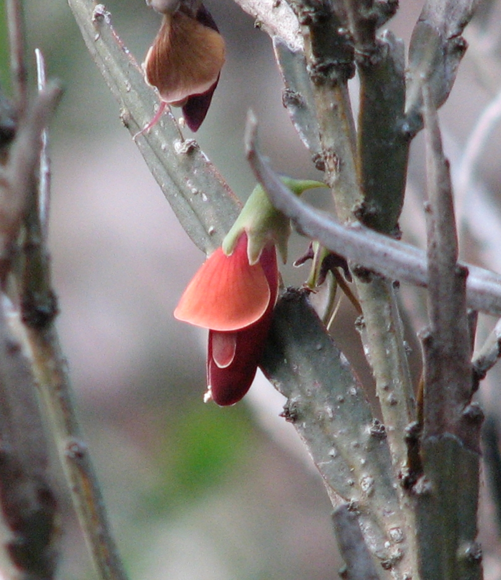 Bossiaea walkeri, Maranoa Gardens, Balwyn, Victoria, Australia